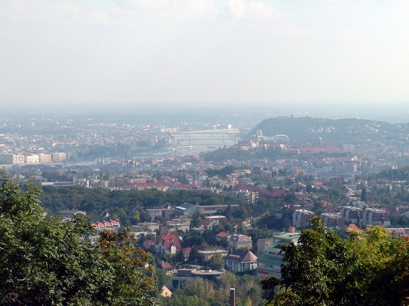 The view of Budapest from the hills.